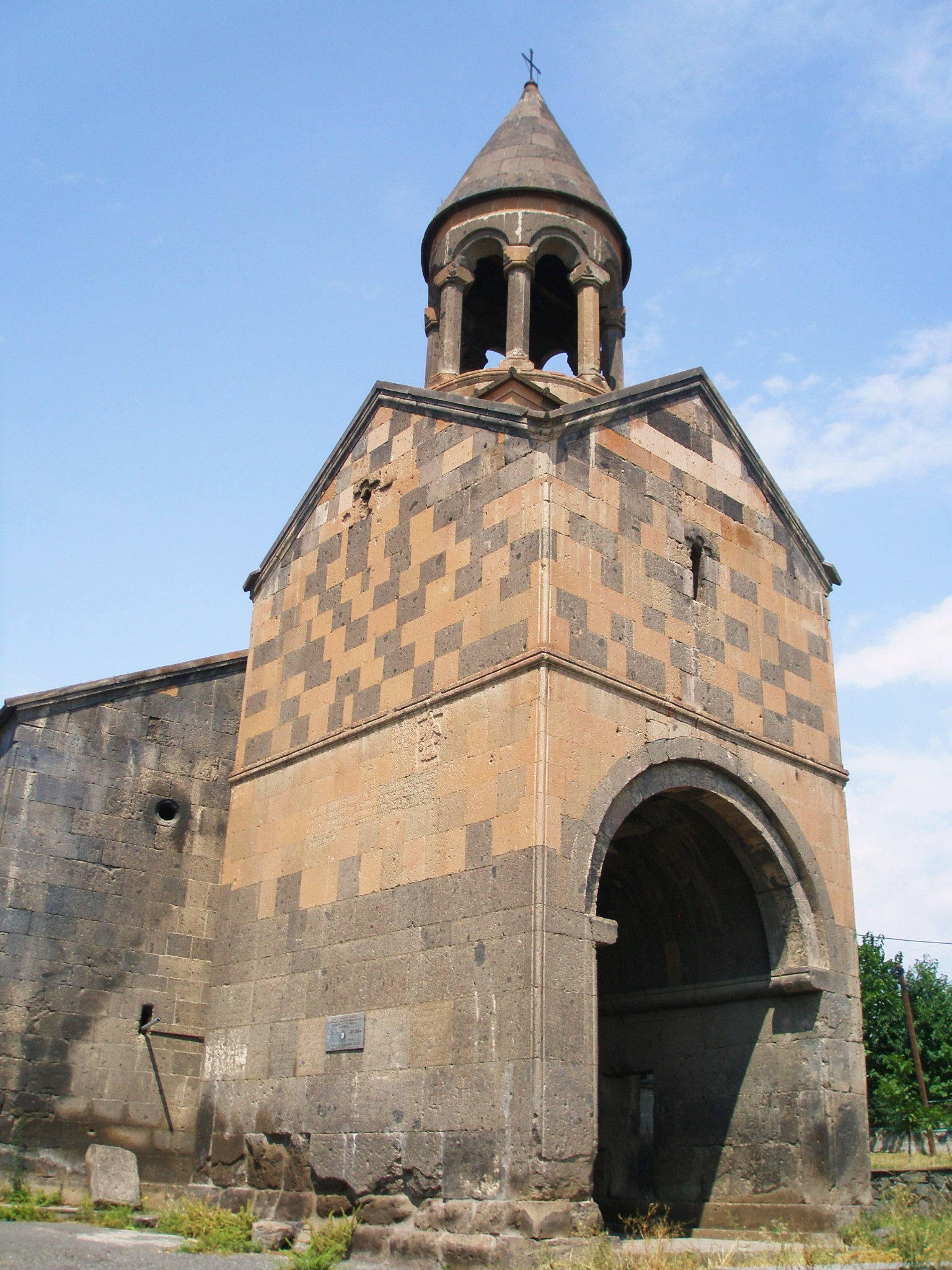 S. Mariam Astvatsatsin Church of Karbi